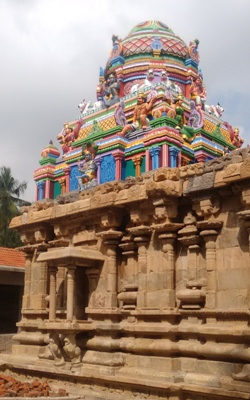 Tirumangalamboolaganathasamytemple திருமங்கலம்பூலோகநாதசுவாமிகோயில்